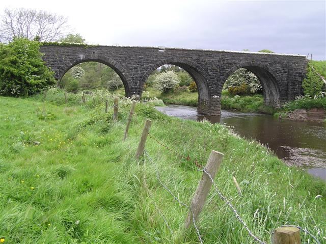 Disused railway bridge It spans the Camowen River near the rear of the Tyrone and Fermanagh Hospital